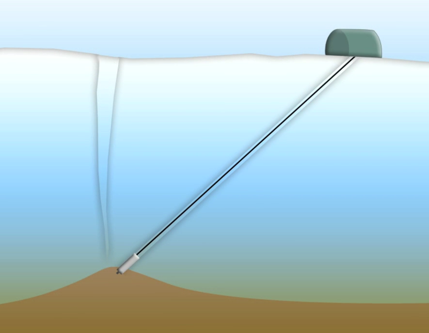 Jill Ann Mikucki is an American microbiologist, educator and Antarctic researcher, best known for her work at Blood Falls demonstrating that microbes can grow below ice in the absence of sunlight. These pictures are from an article and video posted at Where all graphics are said to be free although attribution is requested.... and is given here with thanks